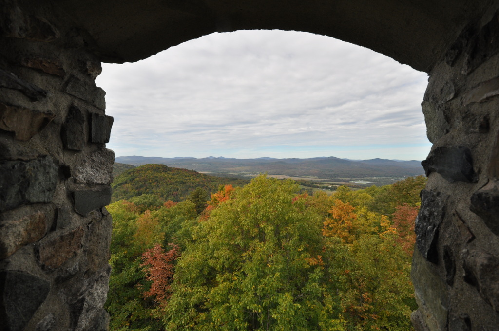 Weeks State Park, Lancaster, New Hampshire. View from the observation tower.